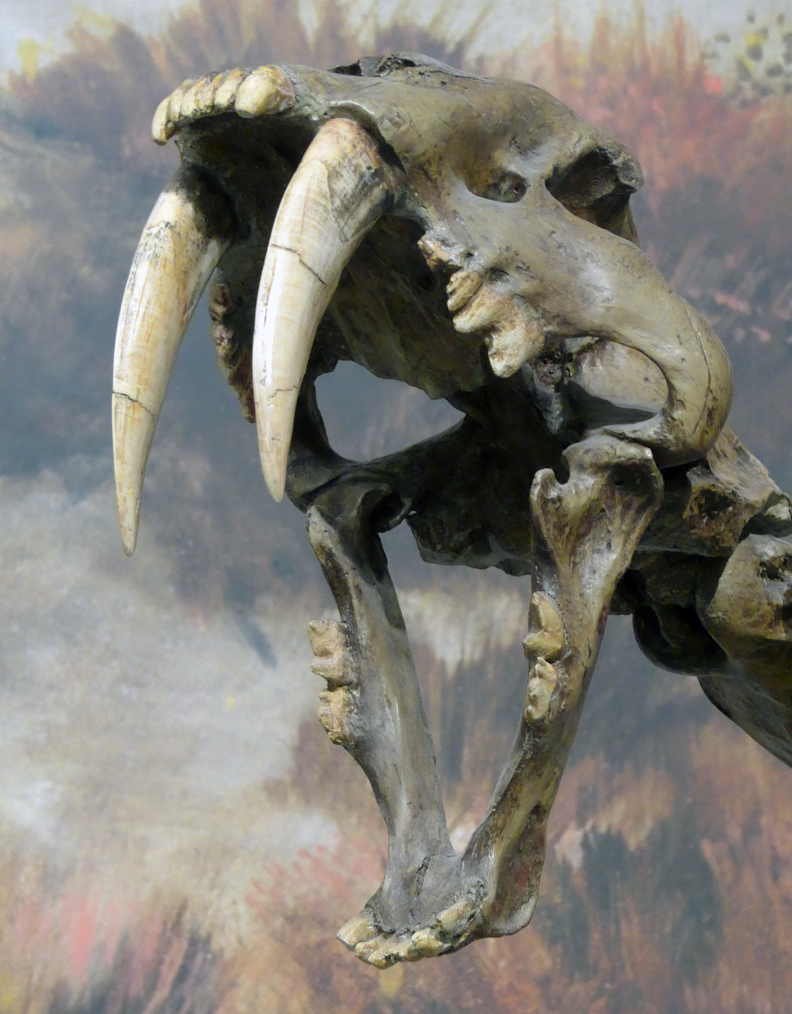 Photo taken at the museum in Edmonton Alberta